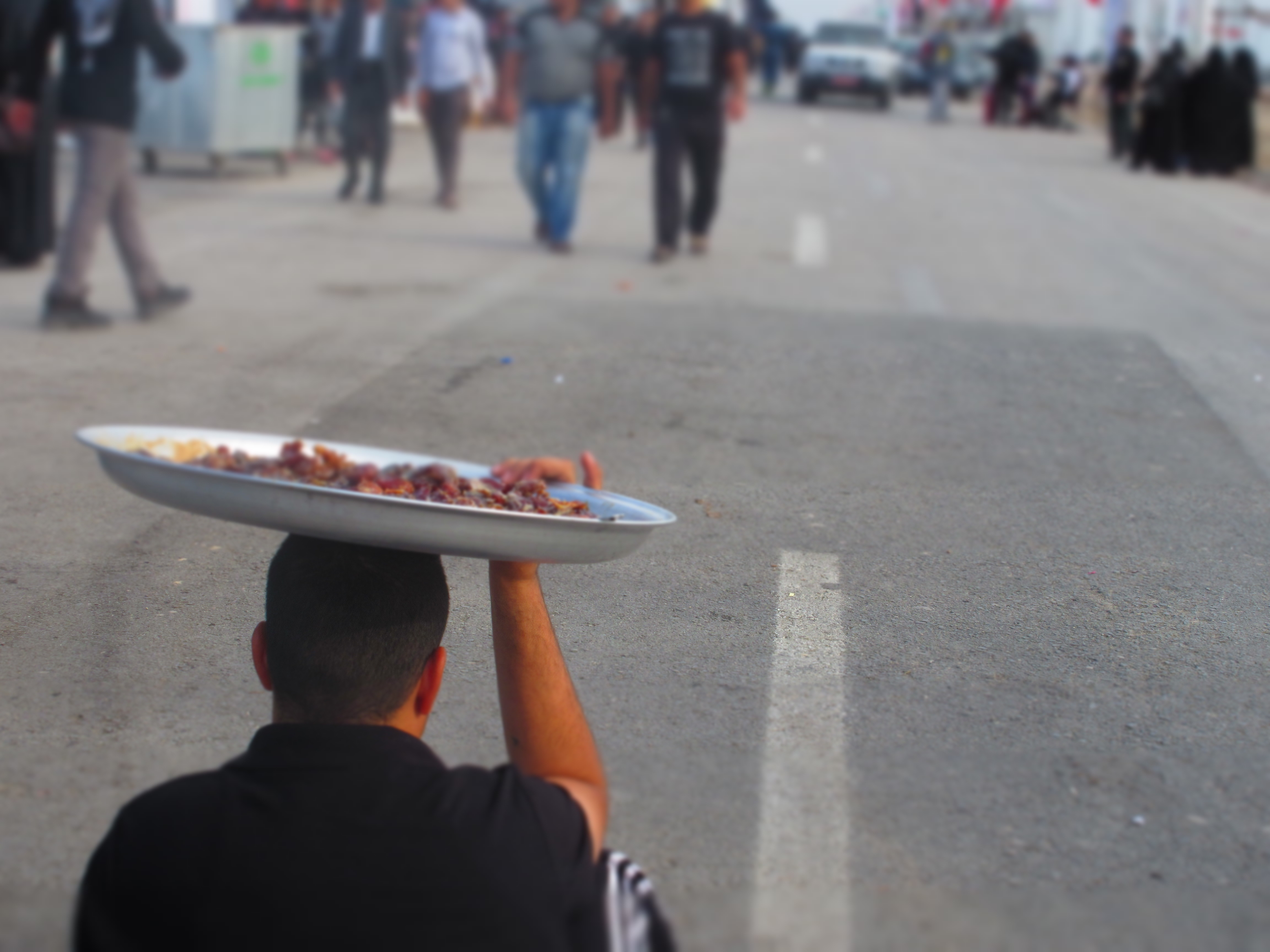 A man holding a plate full of dates on his head waiting for passing arbaeen pilgrims have them.